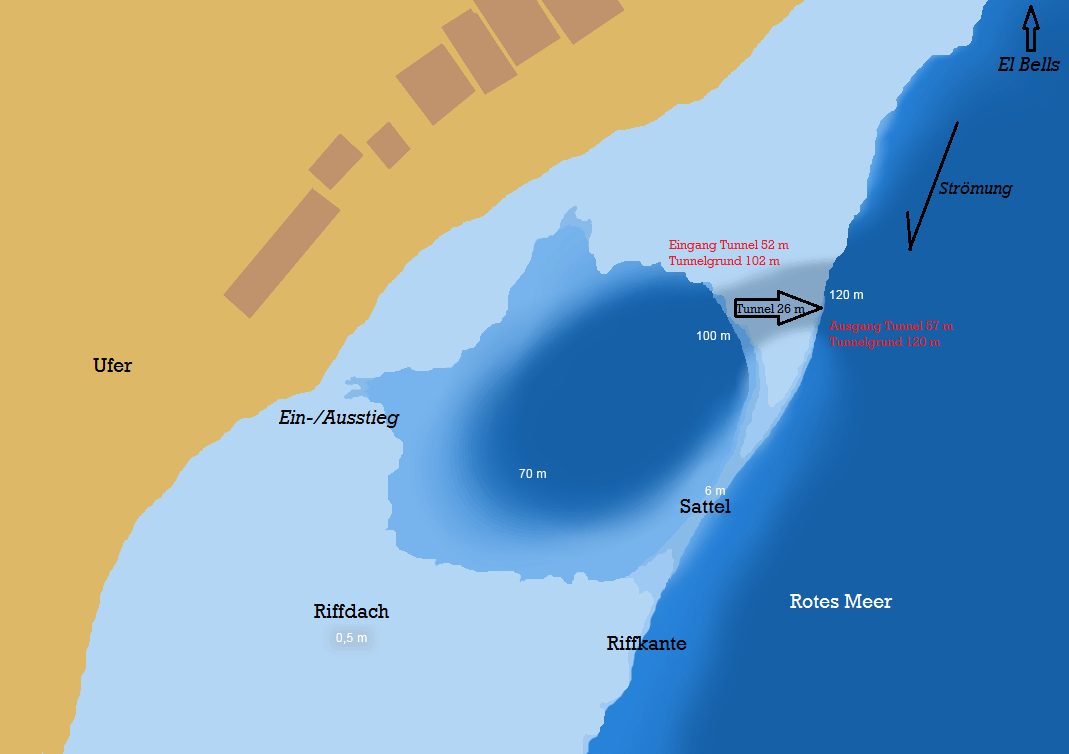 blue hole - Egypt - Dahab - sinai - red sea - map - plan